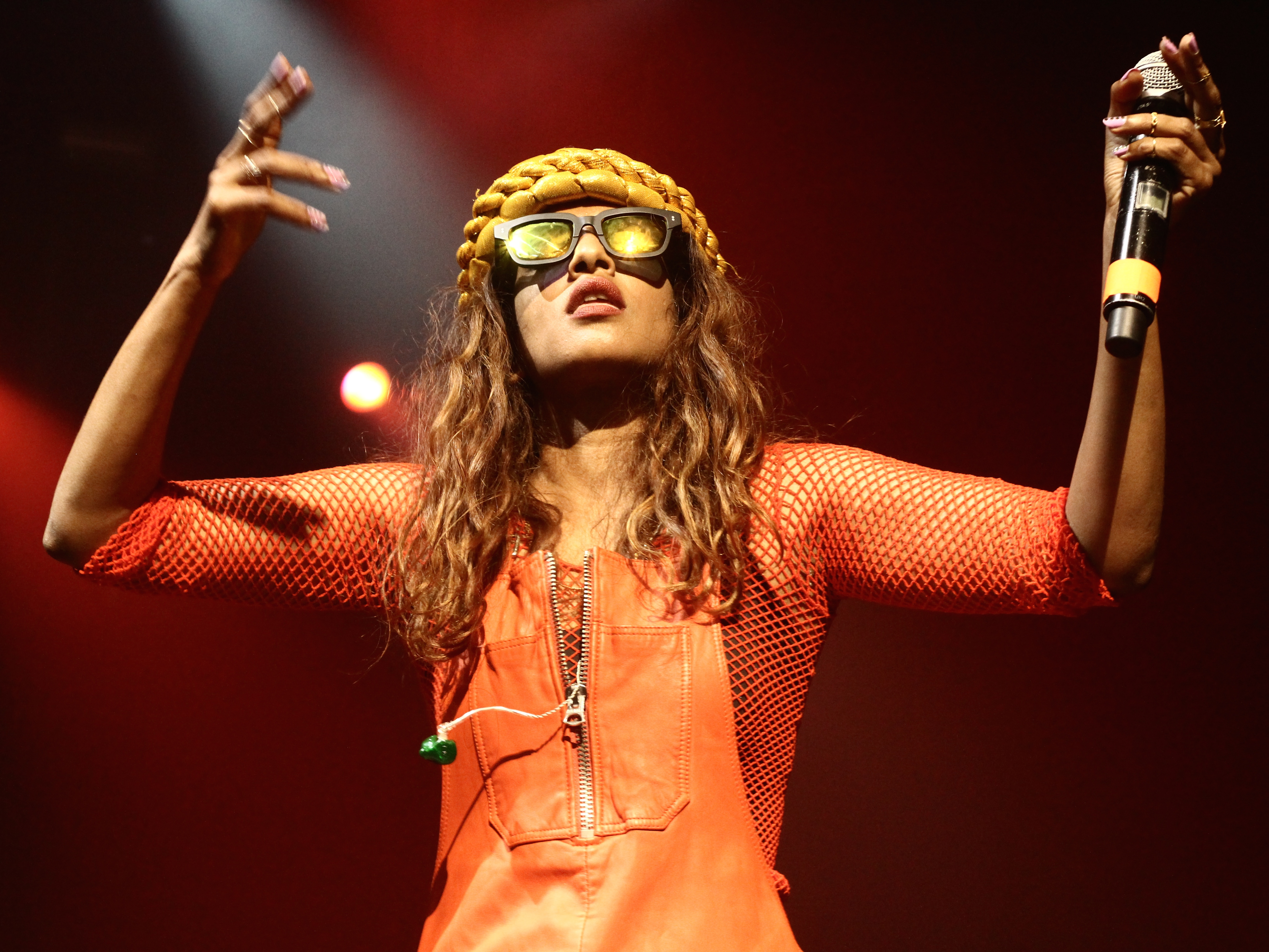 Concert of Nas and M.I.A., Zénith de Paris, 6 July 2014. Paris Hip Hop 2014.